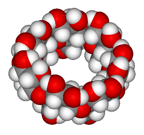 chemical structure of beta-cyclodextrin